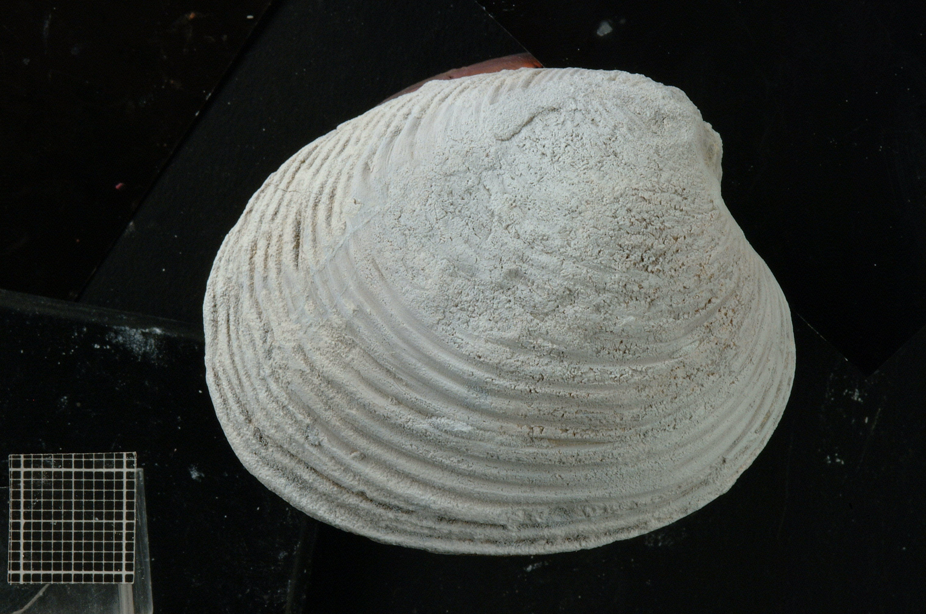 Specimen of the bivalve species Eriphyla argentina Burckhardt, 1903, right view. Agua de la Mula Member of the Agrio Formation, Neuquén Basin. Neuquén Proovince, Argentina.